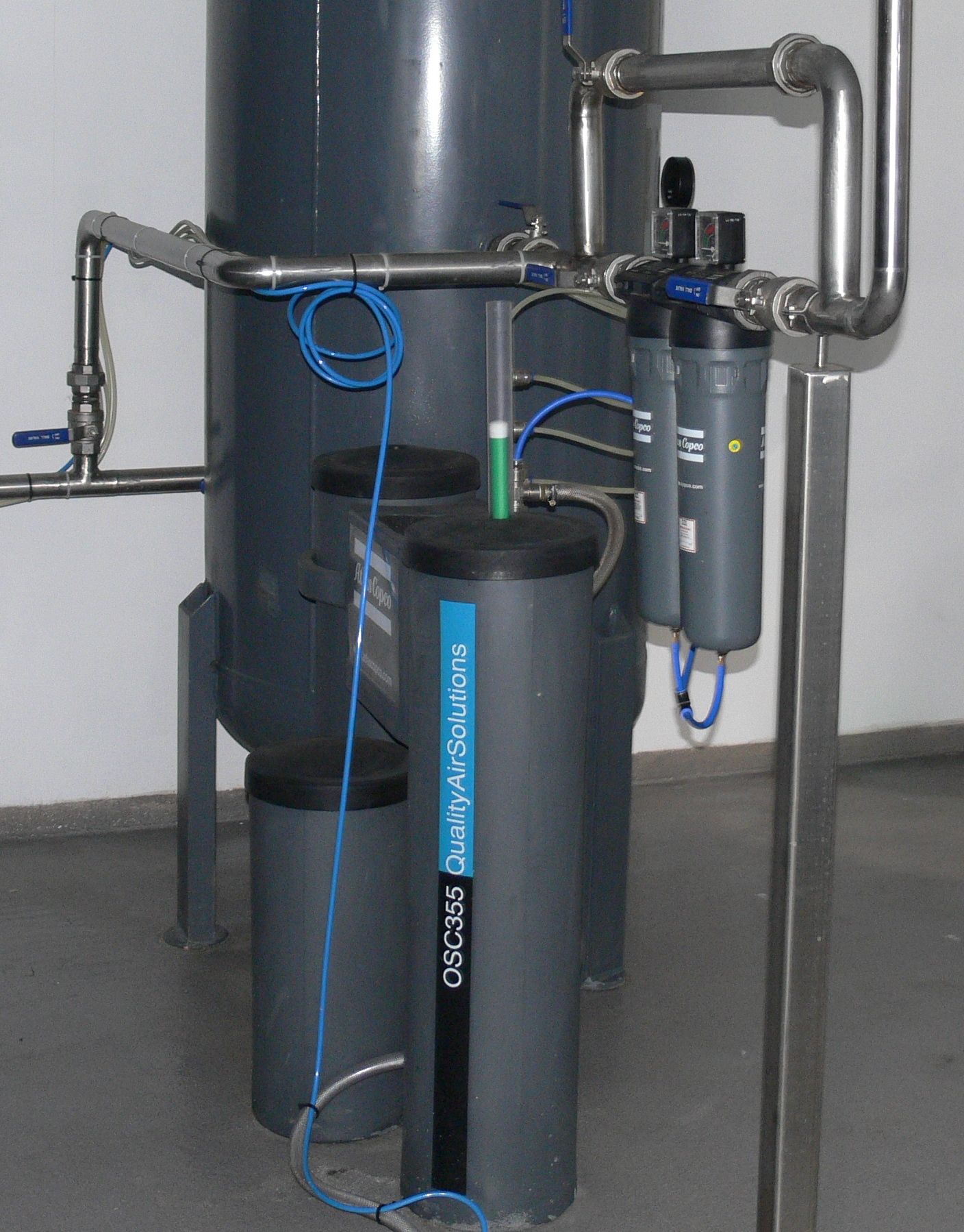 Oil-water separator